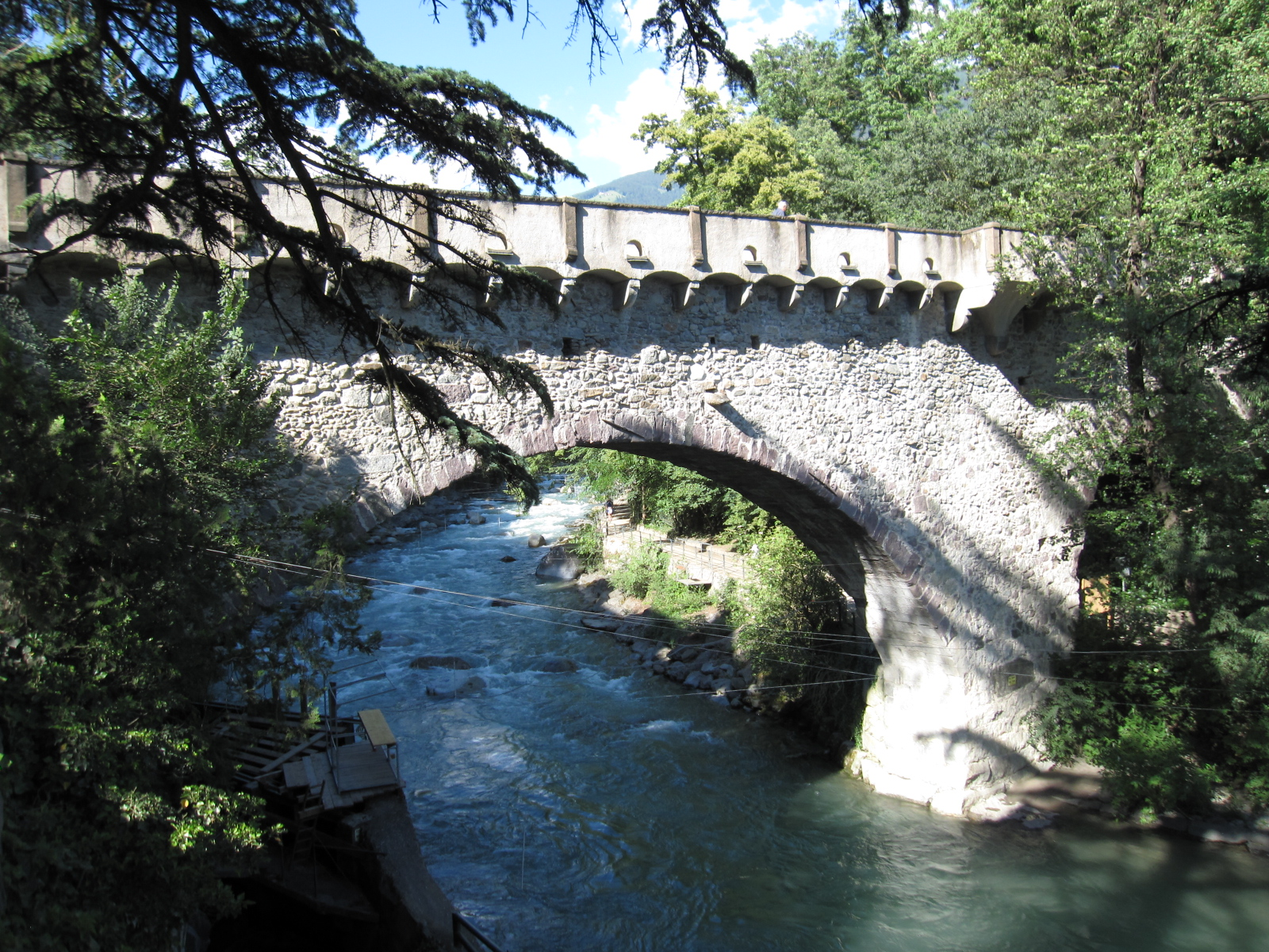 The Steinerner Steg (Stone Footbridge) over the Passer in Meran, South Tyrol.